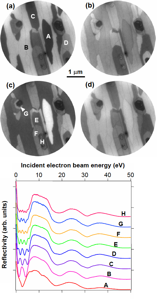 LEEM images of 4H-SiC(0001) surfaces after anneal-ing at 1450◦C. The incident electron beam energies are (a) 2.5, (b) 3.5, (c) 4.5, and (d) 5.5 eV and reflectivity data obtained from areas A-H plotted as a function of the incident electron beam energy. The reflectivity curves from areas A-H are successively shifted upward for clarity.